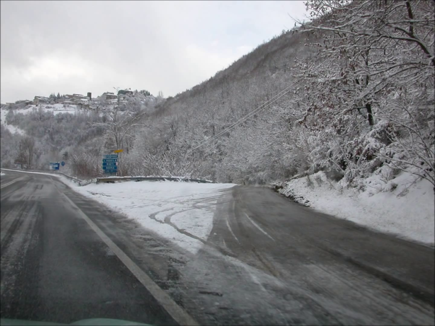 Picture taken on State Road n. 4 "Via Salaria", from the moving car.